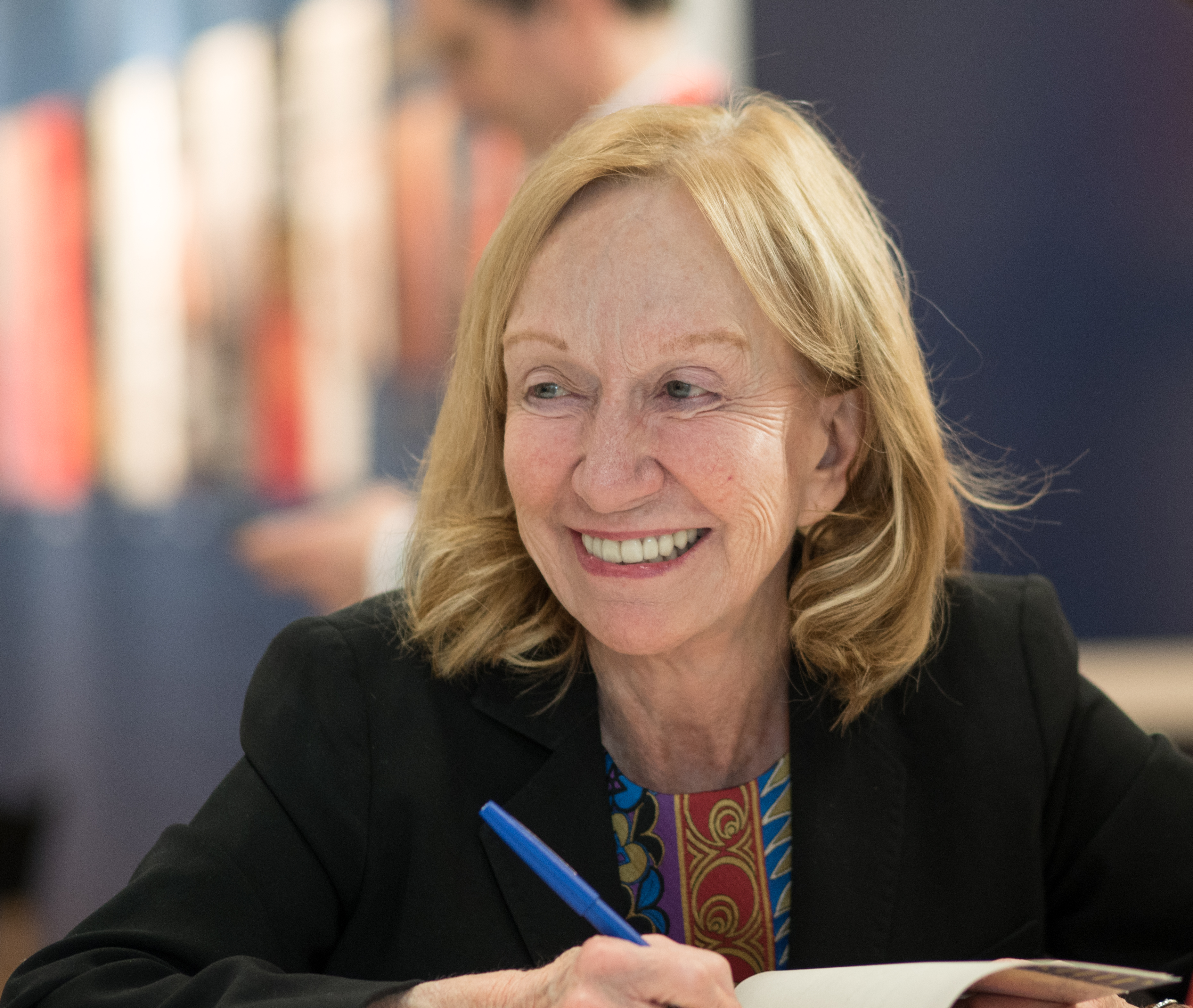 Doris Kearns Goodwin BookExpo America 2018 at the Javits Convention Center in New York City.